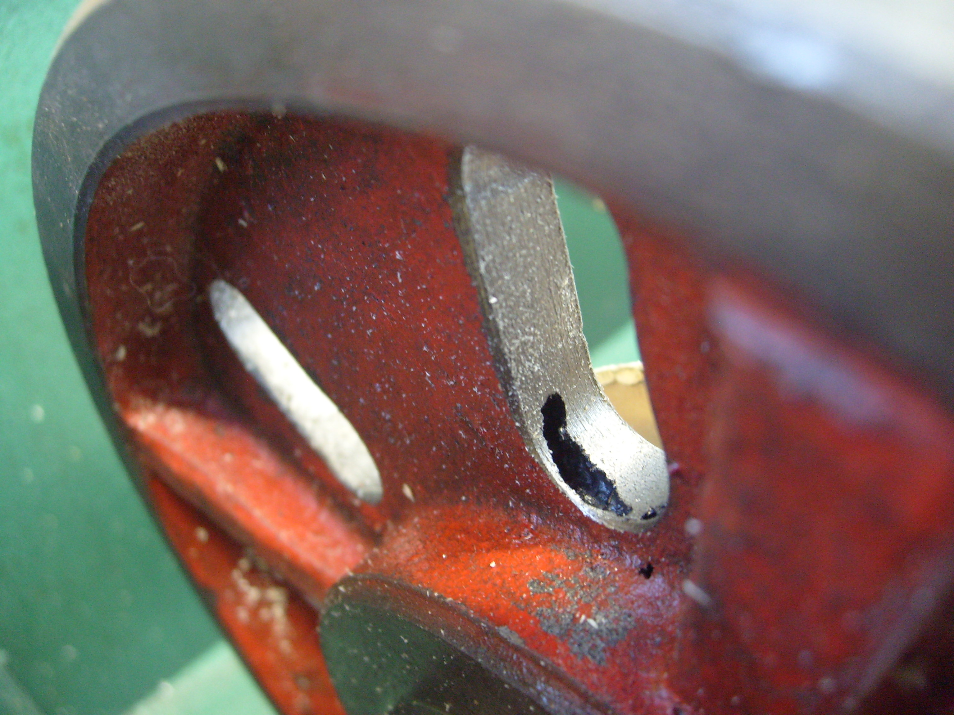 A "blowhole" casting defect in a commercial steel lathe face plate. A bubble of air became mixed into the molten iron, then froze with the metal into the plate, and was only exposed while machining the bolt slots. This part is still usable, although overtightening a bolt over the hole could crush part of the plate.